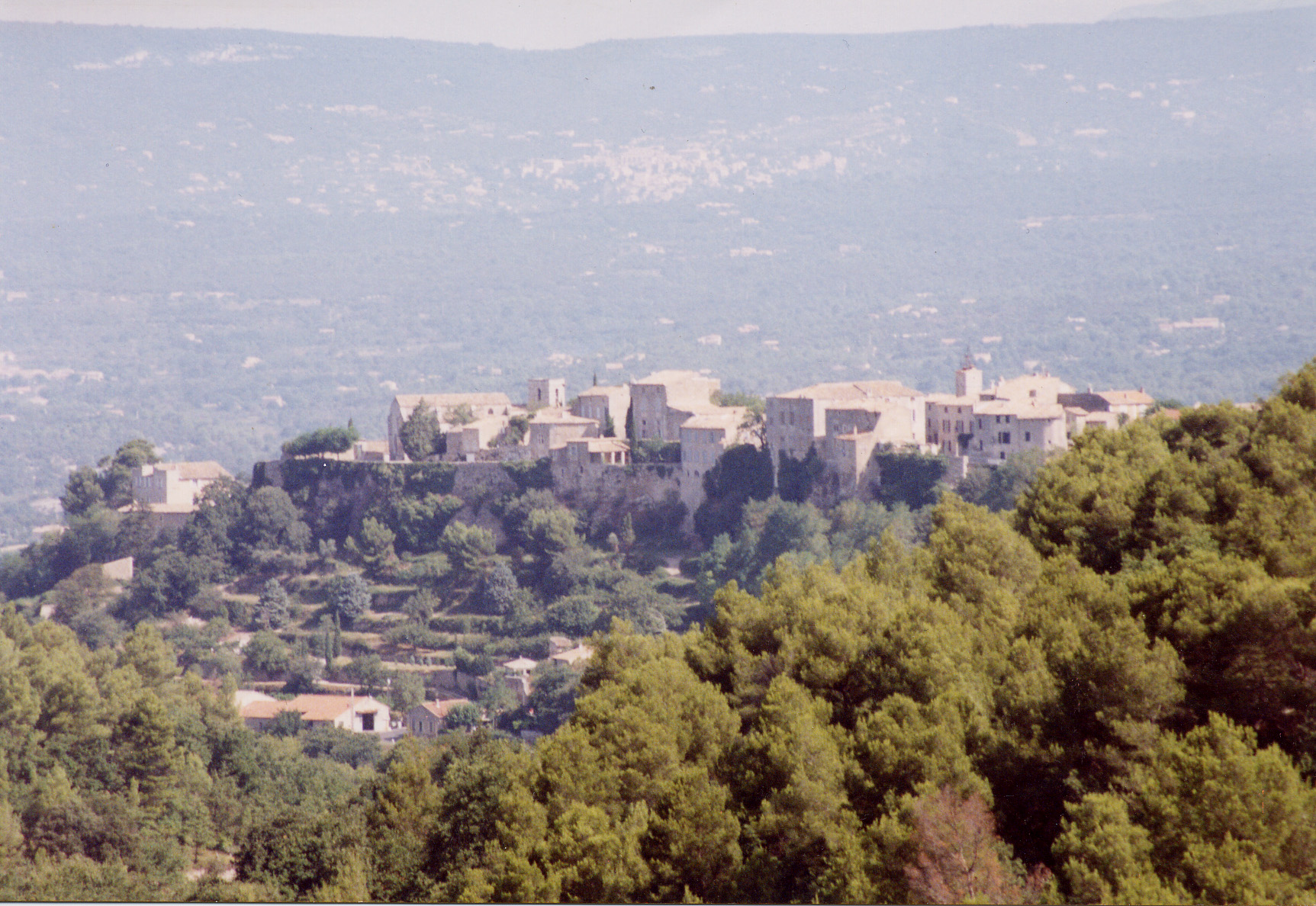 Town of Ménerbes (Vaucluse), France.